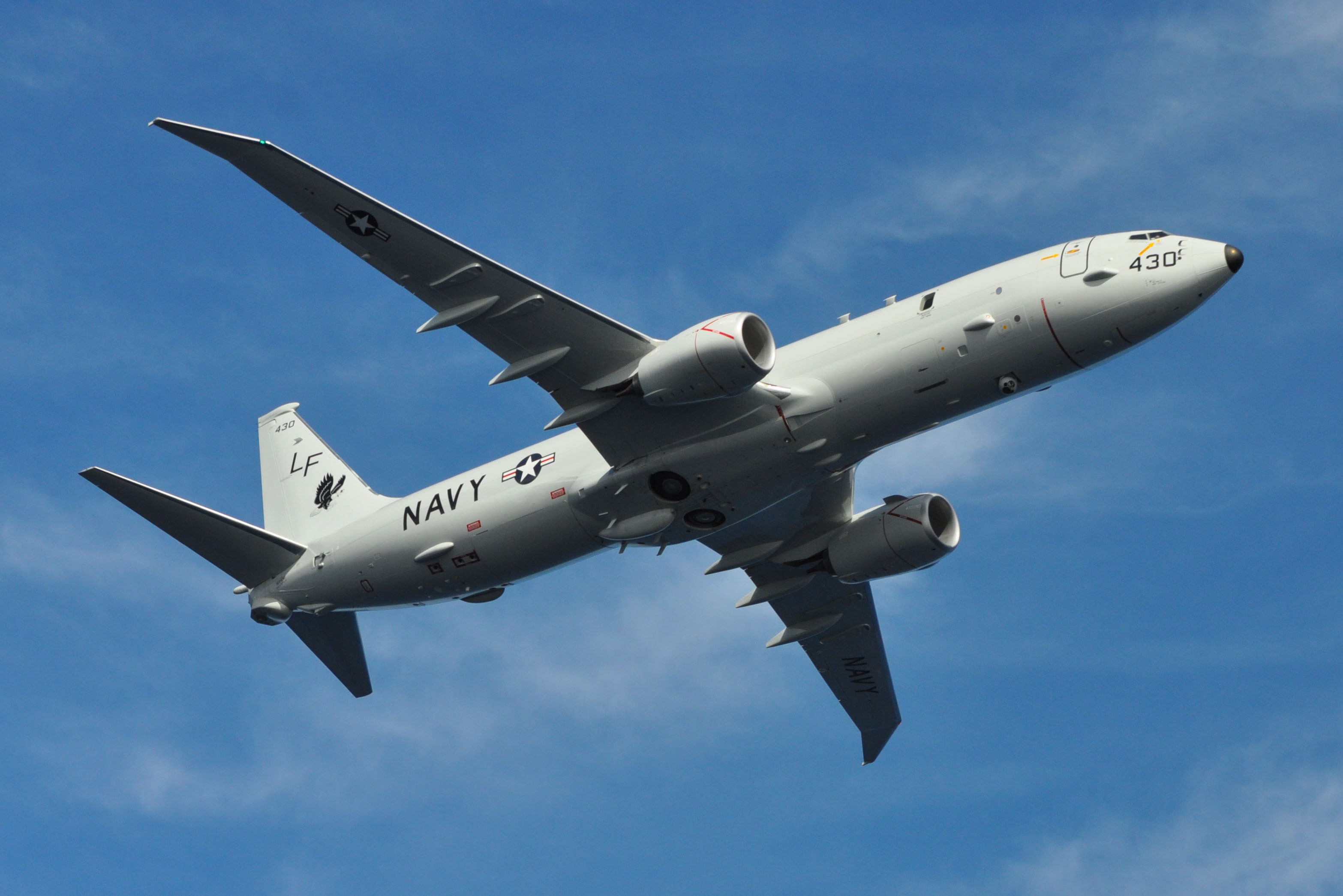 A P-8A Poseidon assigned to Patrol Squadron (VP) 16 is seen in flight over Jacksonville, Fla. (U.S Navy photo by Personnel Specialist 1st Class Anthony Petry)